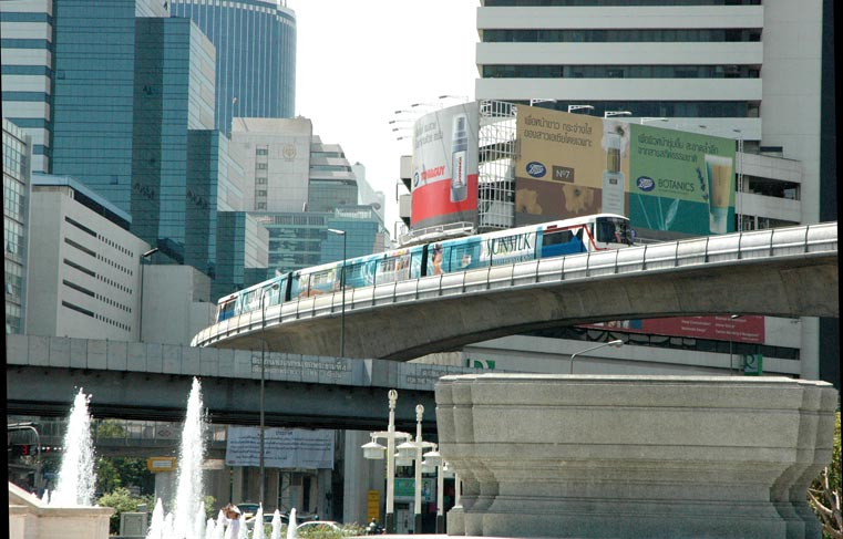 Bangkok Skytrain, BTS Skytrain approaching Sala Daeng Station near the famous Patpong district of Bangkok